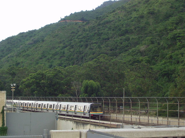 Caracas Metro, train of line 2 near the station Mamera